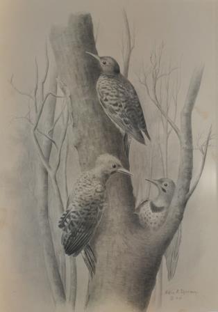 A Flickr Courtship by Althea Sherman (1853-1943)